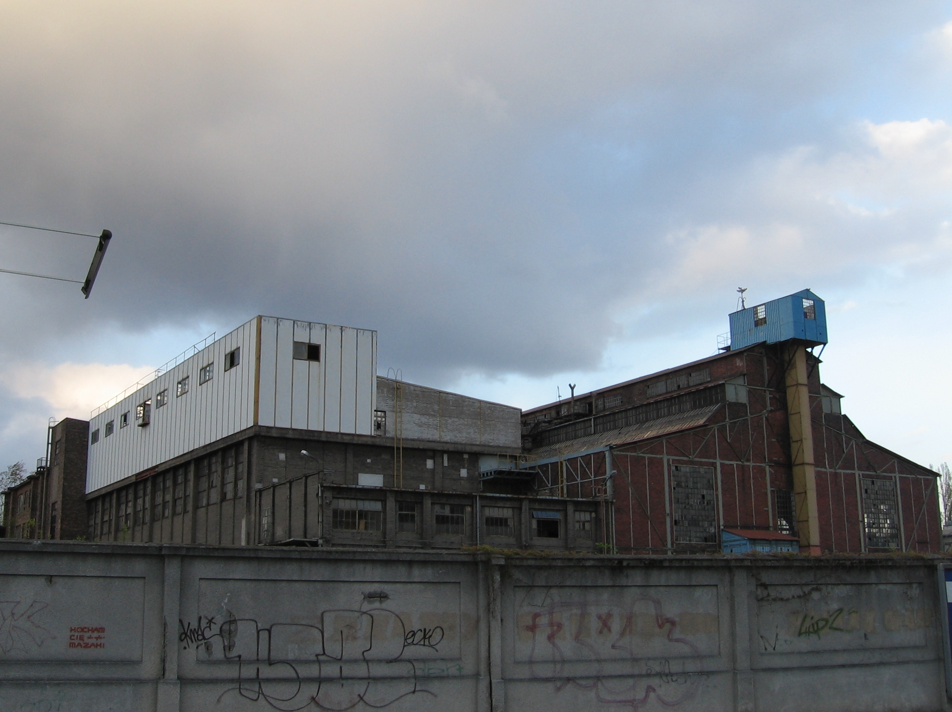 Powiśle Power Plant (unused), Warsaw, Poland